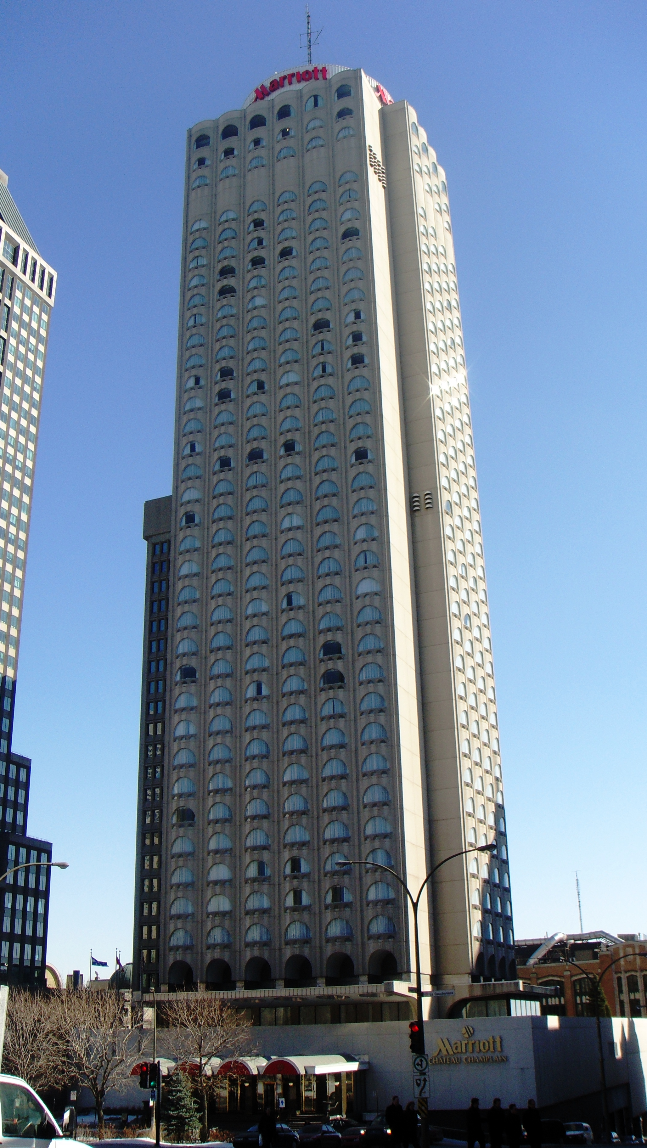 Château Champlain Marriott, Montreal